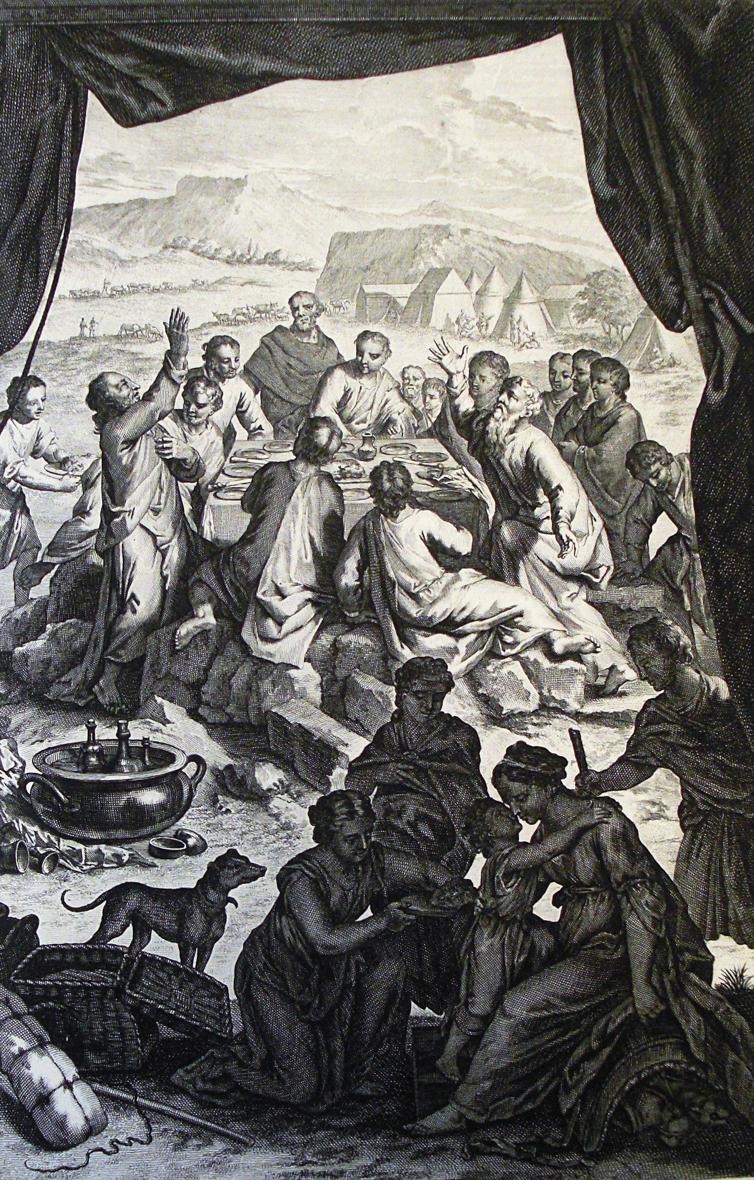 In the collection of Revd. Philip De Vere at St. George’s Court, Kidderminster, England.